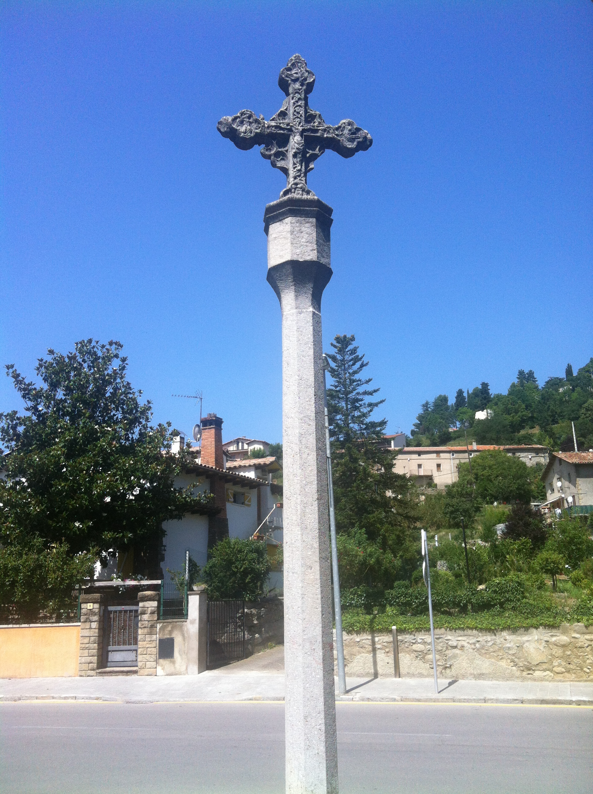 Campdevànol